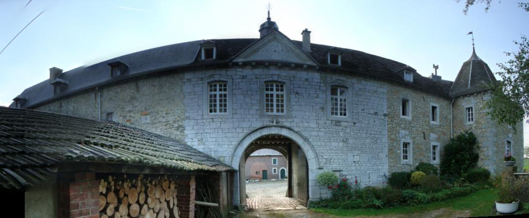 Farm castle Ruyff